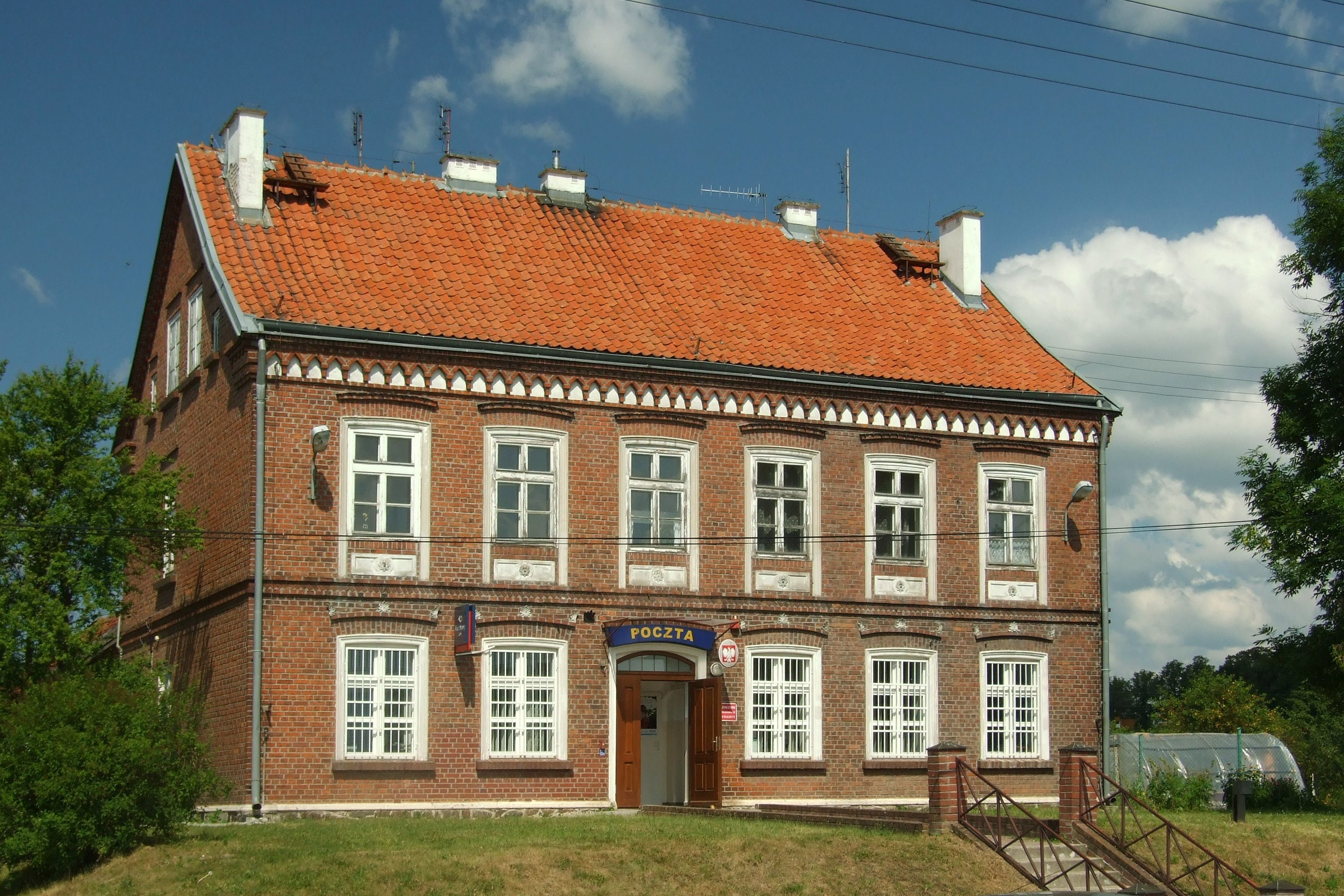 Post office building in Małdyty, Poland